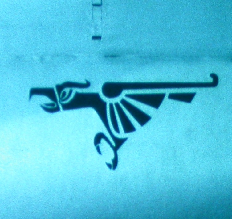 Squadron emblem of the Swiss Air Force